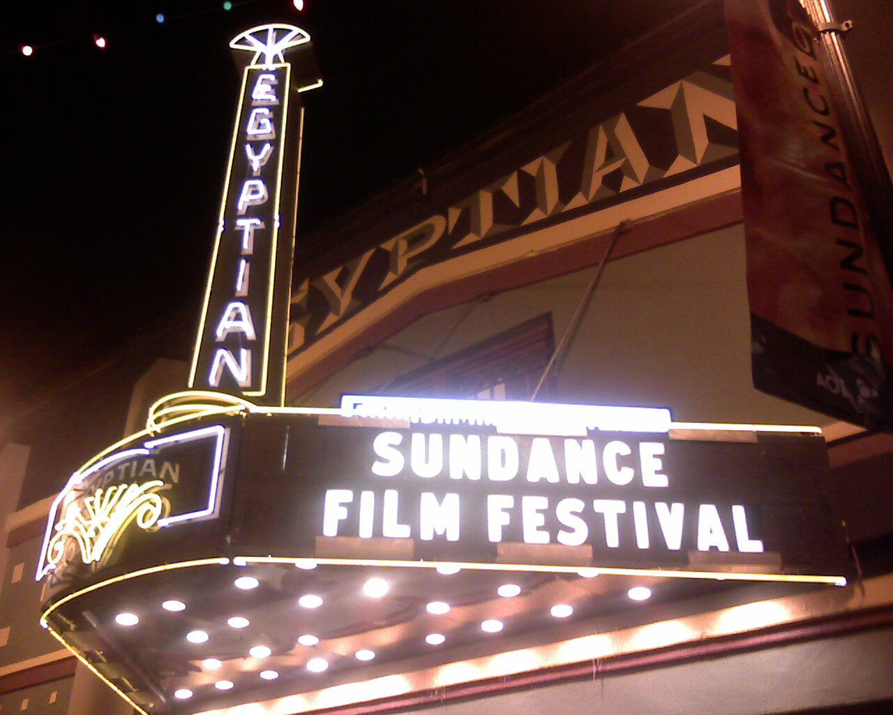 sundance